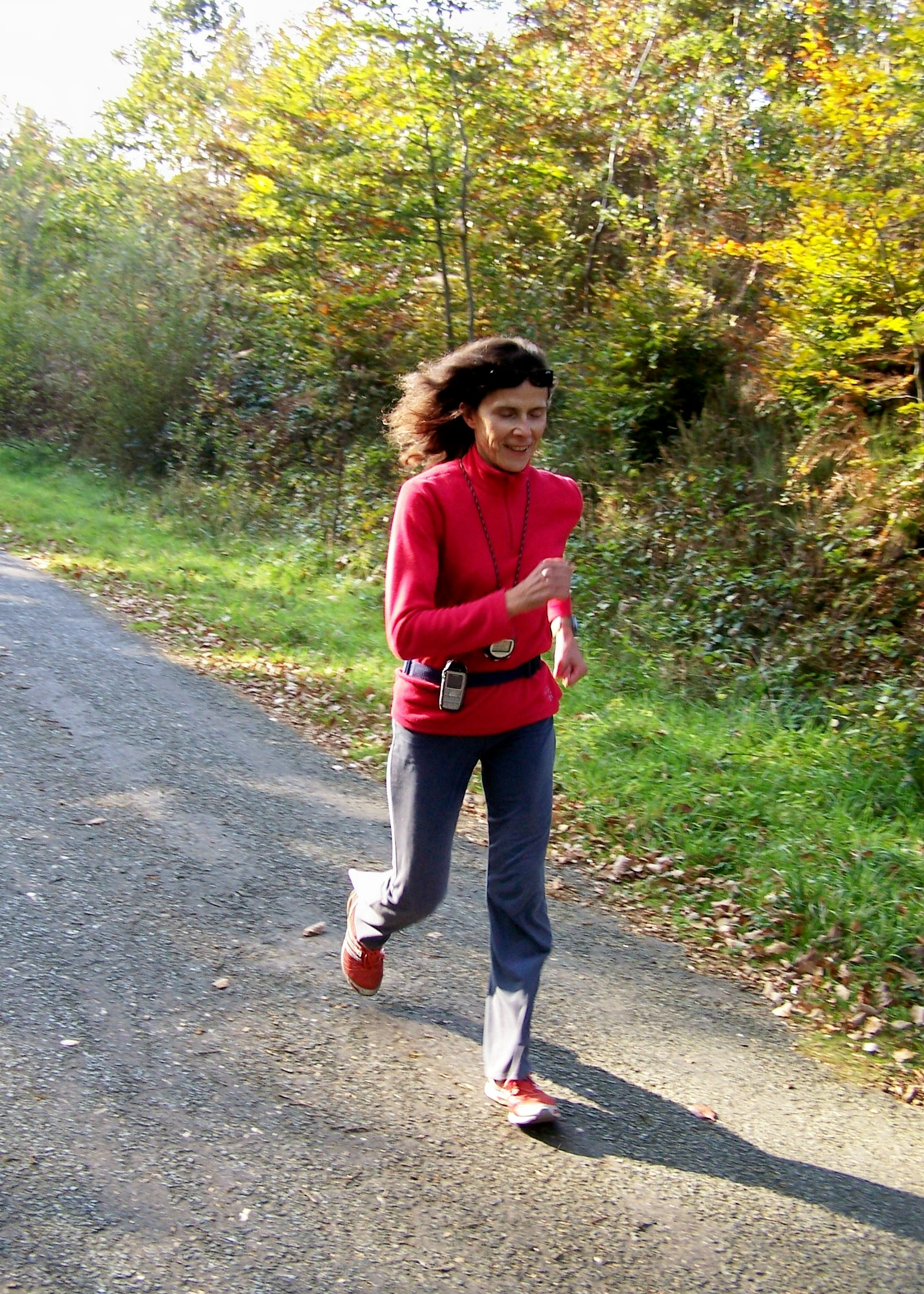 Anne-Marie Mesmoudi training in the forest of Rambouillet (Yvelines, France)